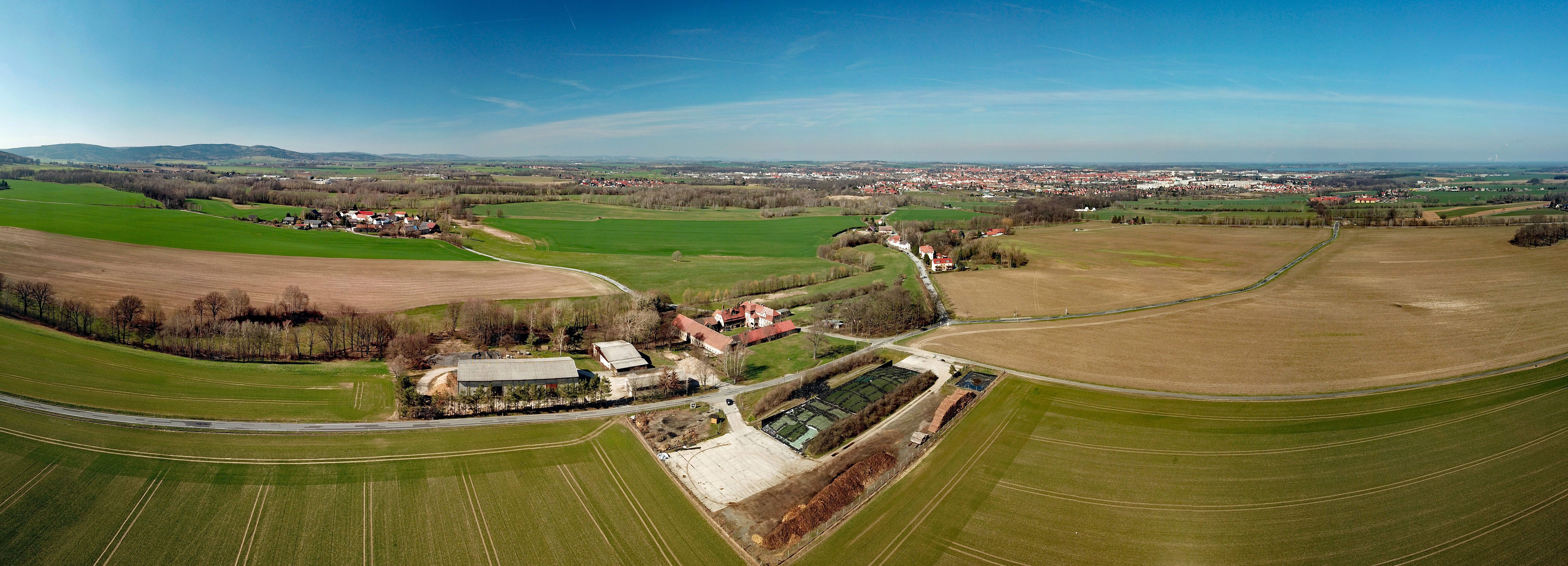 Jeßnitz (Kubschütz, Saxony, Germany) Hornjoserbsce: Powětrowy wobraz Jaseńcy w Kubšiskej gmejnje Dieses Foto wurde mit einem Quadcopter innerhalb der RMZ des Flugplatzes EDAB aufgenommen. Der Flugleiter wurde am Aufnahmetag telephonisch über Ort und Zeit informiert und hat zugestimmt. Der Flug erfolgte auf Grundlage der Allgemeinverfügung der Landesdirektion Sachsen zur Erteilung der Betriebserlaubnis für unbemannte Luftfahrtsysteme und Flugmodelle gemäß § 21a LuftVO und Zulassung von Ausnahmen von Betriebsverboten gemäß § 21b LuftVO für den Freistaat Sachsen.